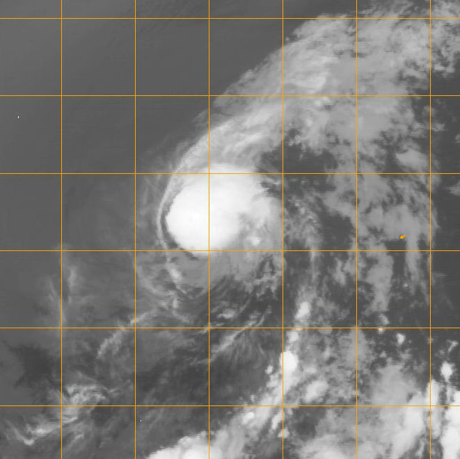 Tropical Depression Four-E of 2007, seen from GOES-11 satellite at 0900Z July 10.